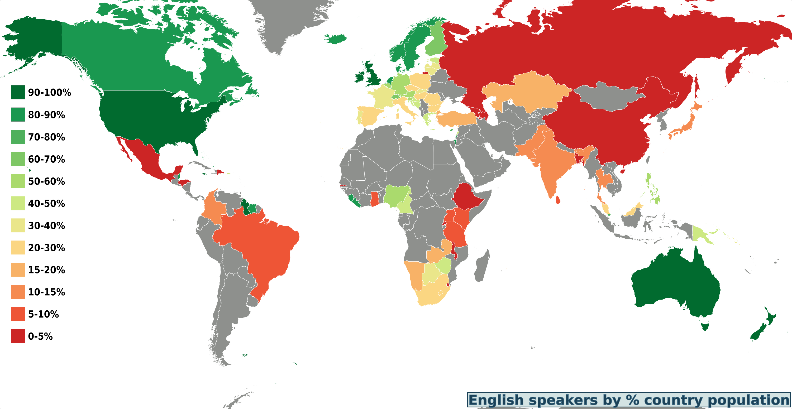 English speakers. as percentage of population by country, World Map of: World¤